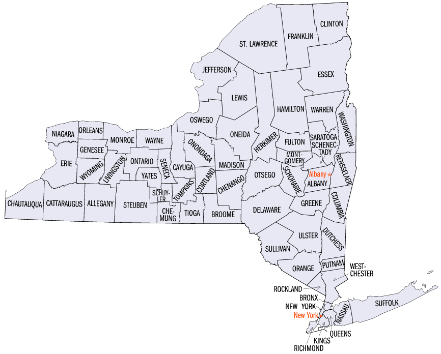 Map of New York counties